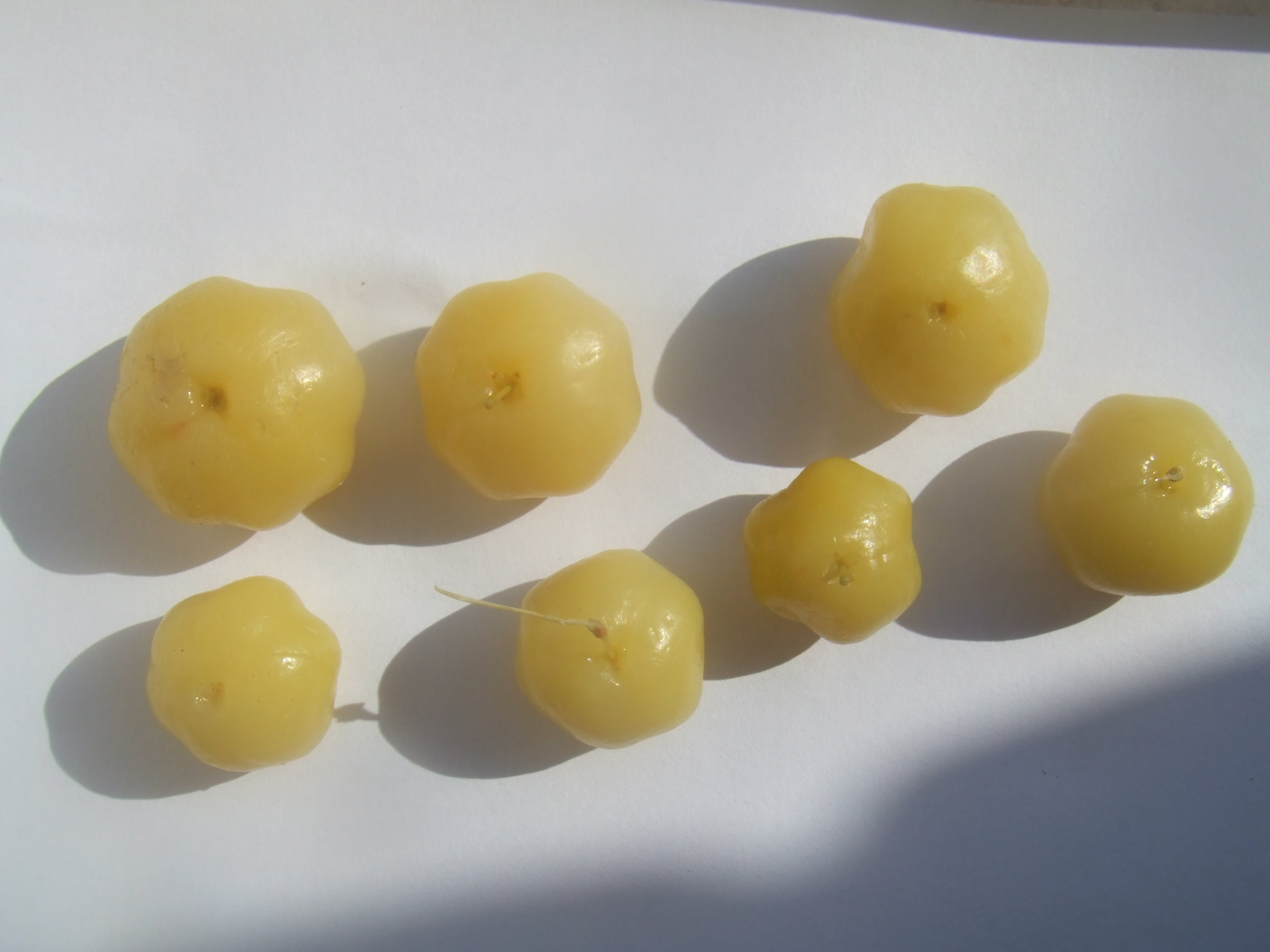 Phyllanthus_acidus, bought at a Surinam tropical supermarket at the Nieuwe Binnenweg in Rotterdam, The Netherlands